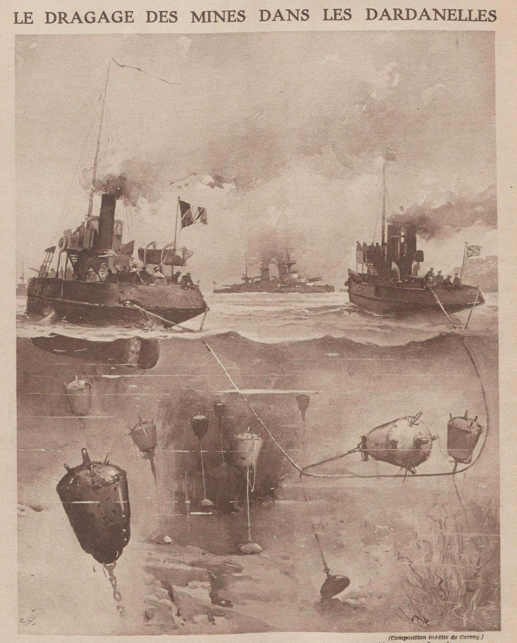 Artist's impression of minesweeping in the Dardanelles in 1915. Drawing published by the weekly Le Miroir April 4, 1915.